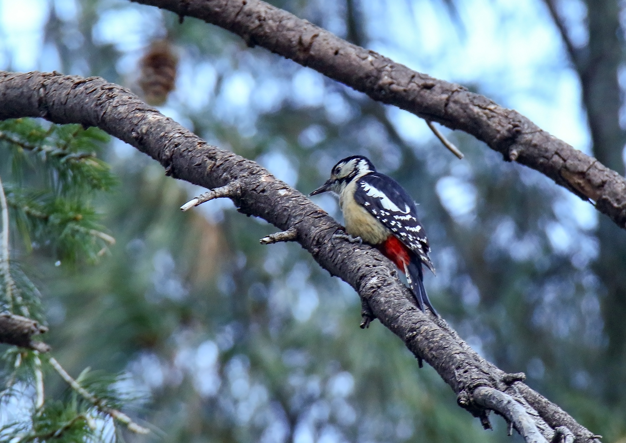 Himalayan Woodpecker (Dendrocopos himalayensis) captured at Kuldana, Murree, Punjab, Pakistan with Canon EOS 7D Mark II